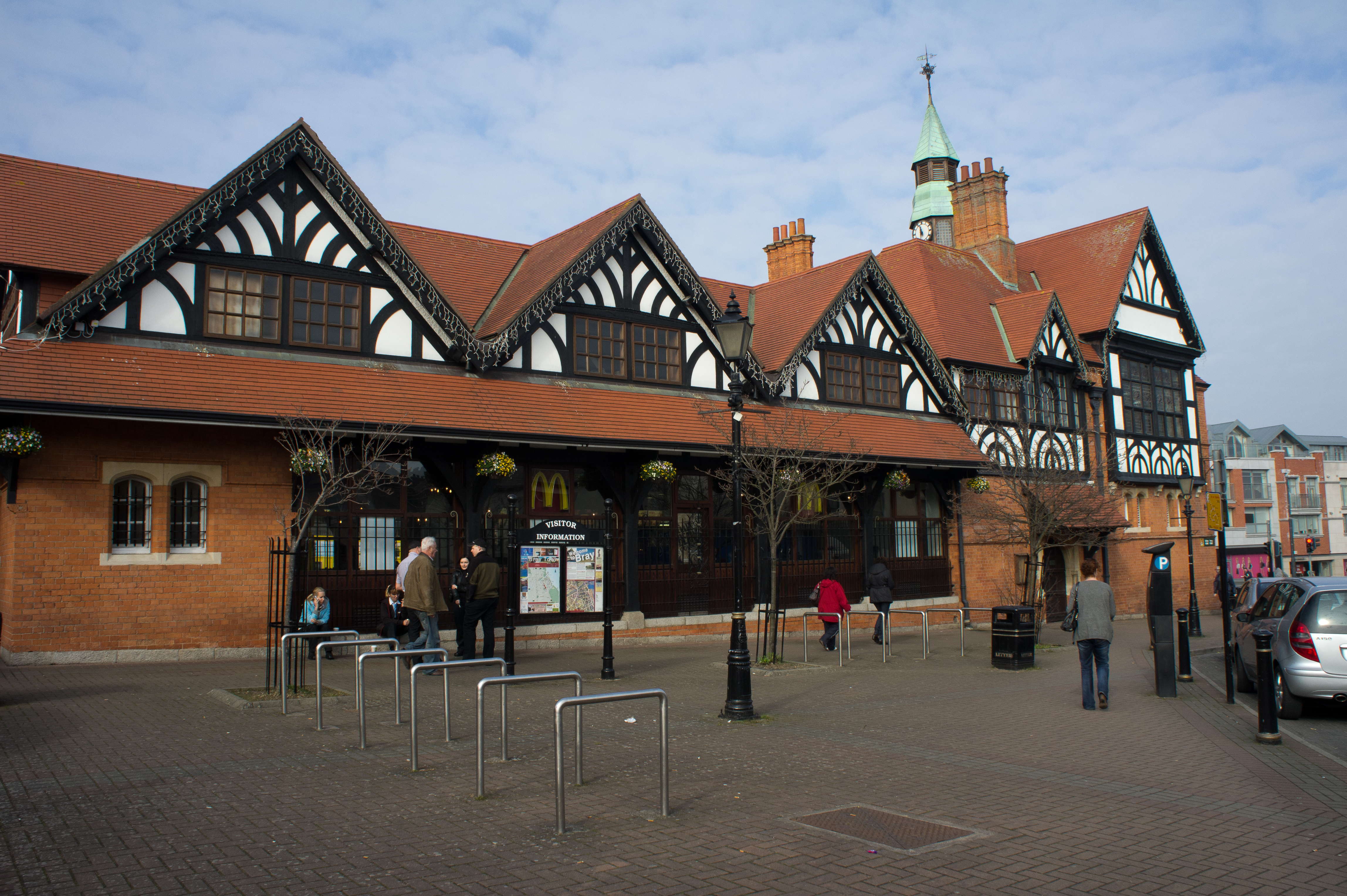 Bray Town Hall, built in the Tudor Revival style at the top of Main Street, was commissioned by Reginald Brabazon (1841-1929). The design was by (Sir) Thomas Newenham Deane (1827-99) and Thomas Manly Deane (1851-1932). The construction is of locally-made red brick, with timber framing to projecting first floor bays and gables. Outside there is drinking fountain crowned by a wyvern, a mythological winged dragon from the Brabazon coat of arms. In 1997 the building was taken over by McDonald's.